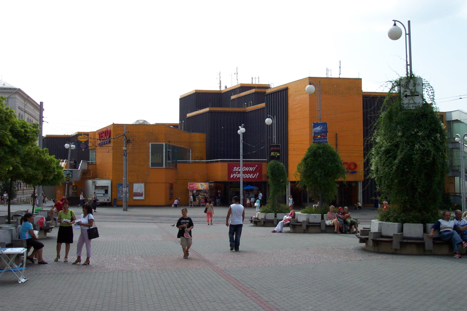 Department store Ještěd (now Tesco) in Liberec